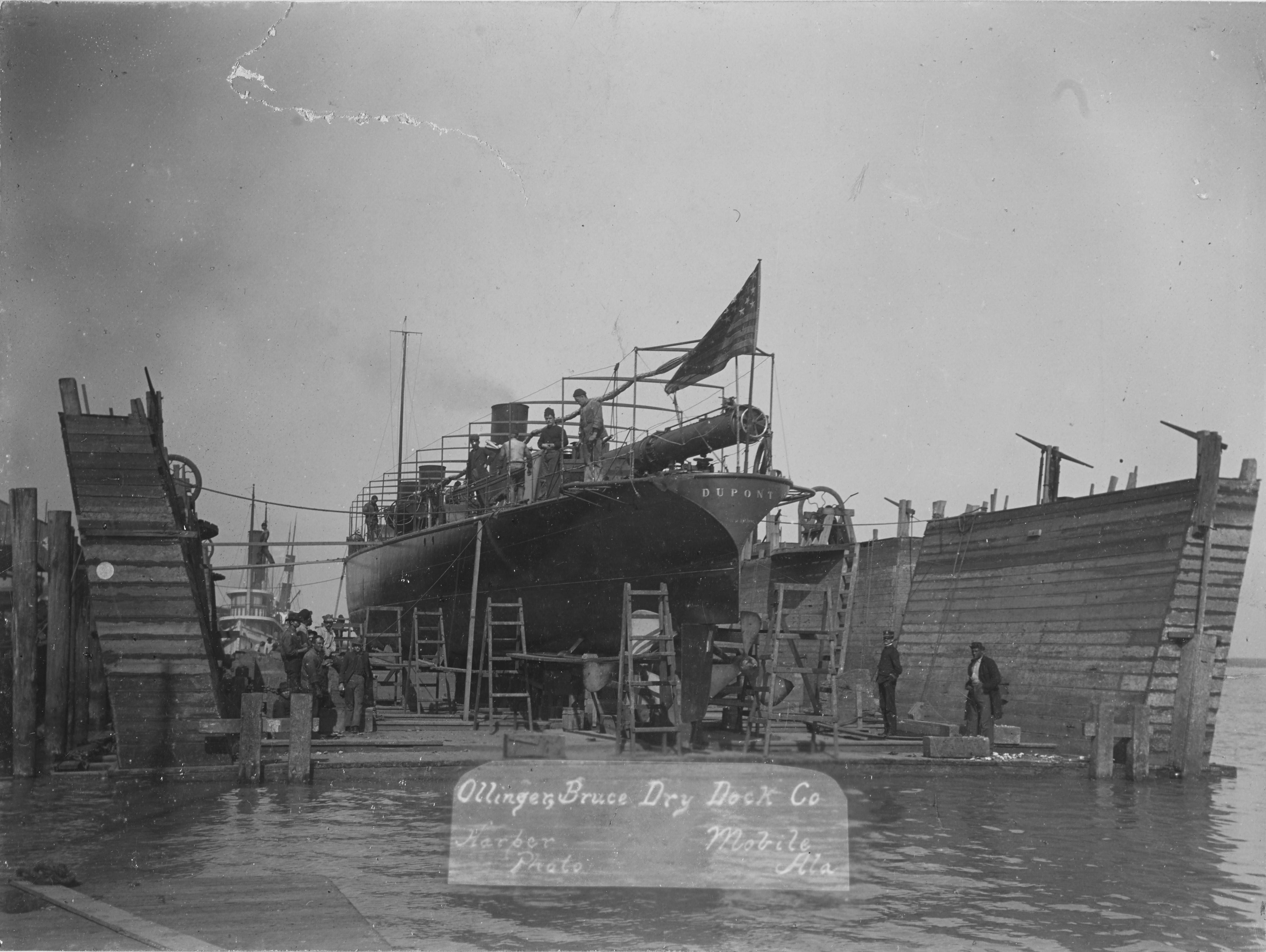 USS Du Pont (TB-7) in a floating drydock at the Ollinger, Bruce Dry Dock Co., Mobile, Alabama, 18 February 1898. Photographed by Harbor Photo. The original photograph was received from the Office of Naval Intelligence in November 1898. U.S. Naval History and Heritage Command Photograph.